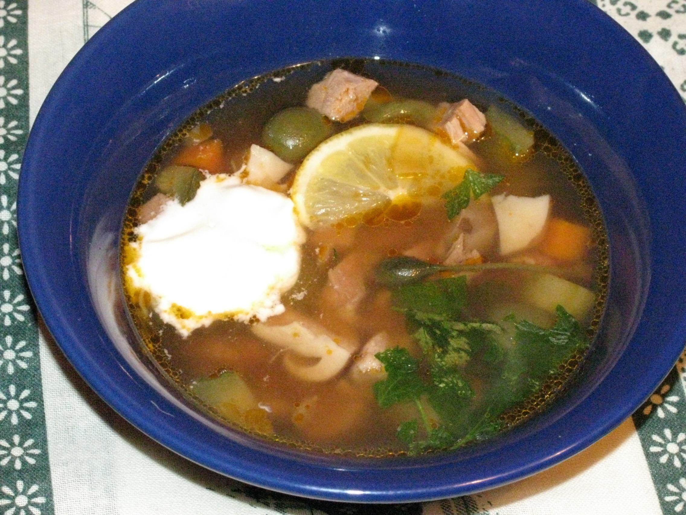 Solyanka with meat and vegetables